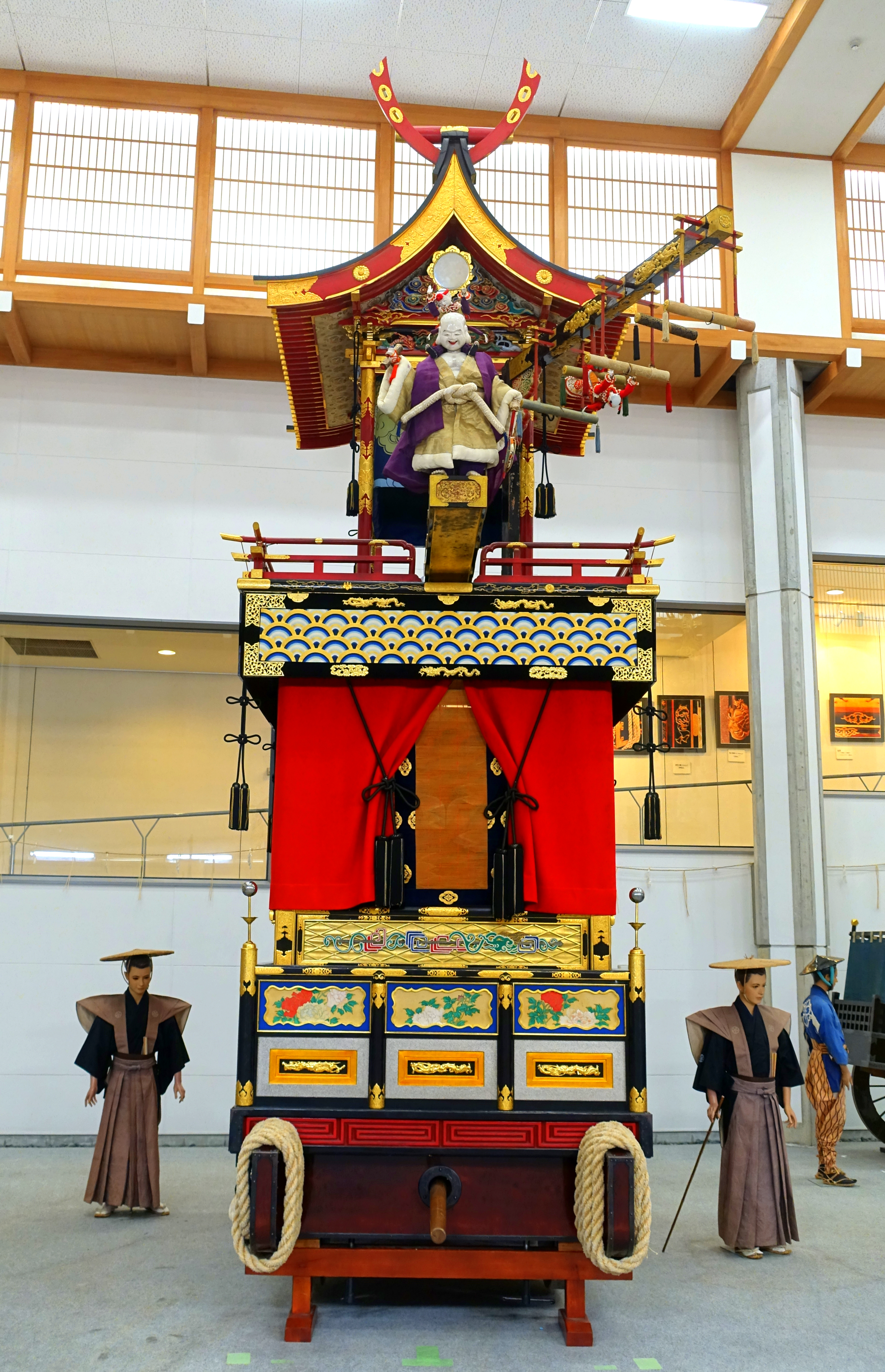 Takayama Festival Float Exhibition Hall (高山祭屋台会館) - Takayama, Gifu, Japan.